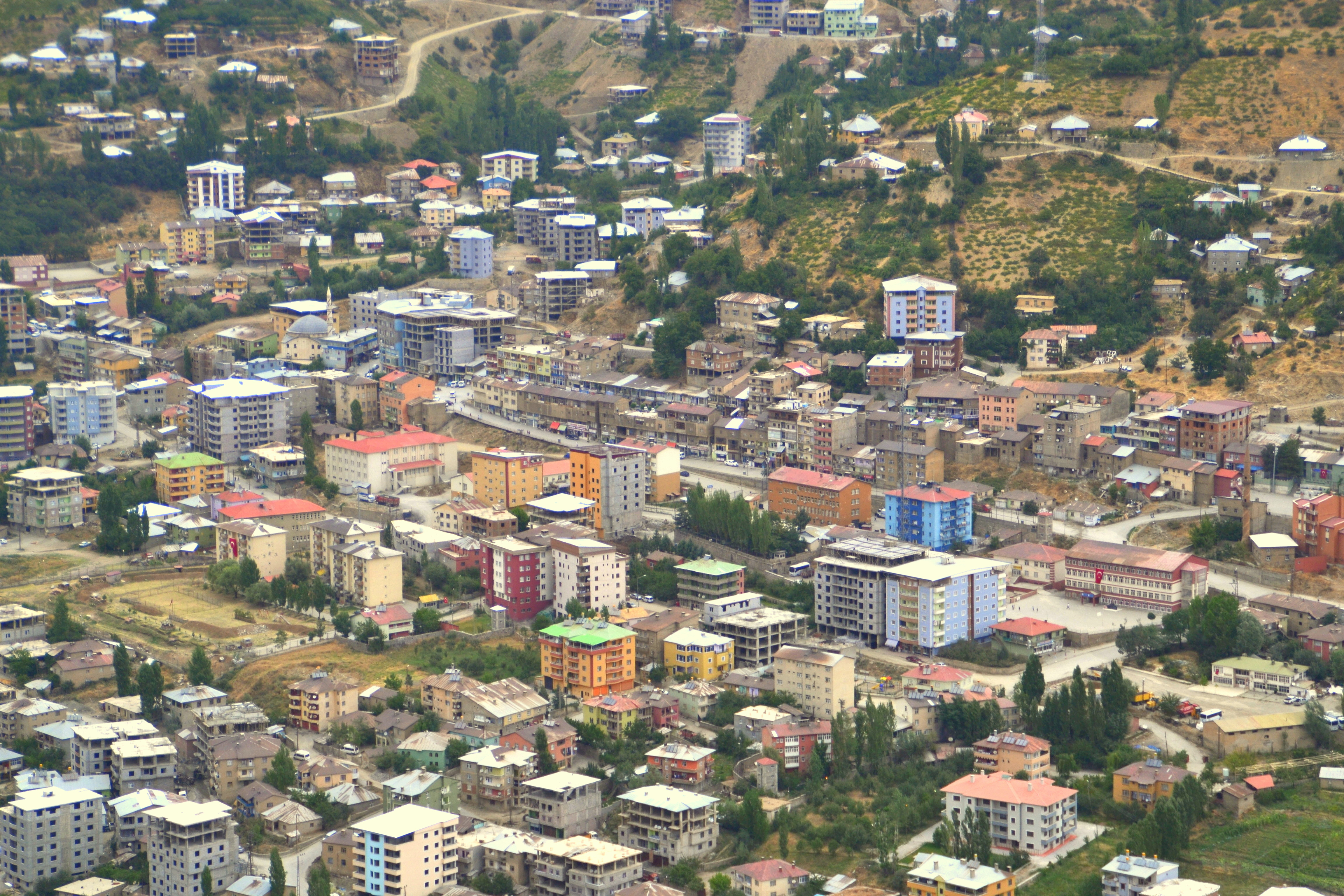 Şemdinli'den genel bir görünüm